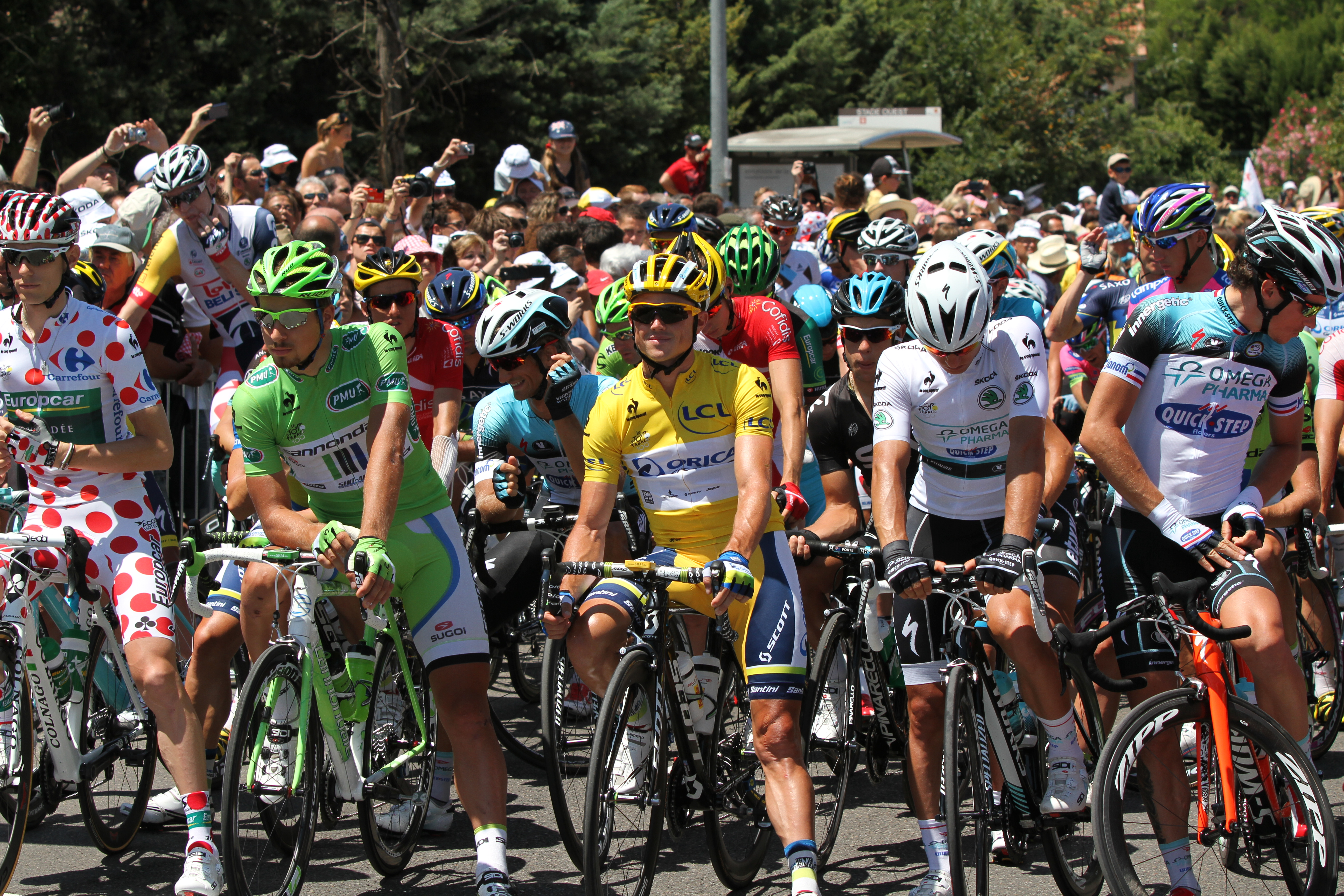 Pierre Rolland, Peter Sagan, Simon Gerrans, Michał Kwiatkowski and Sylvain Chavanel during Stage 6 of the Tour de France 2013 in Aix-en-Provence (Bouches-du-Rhône, France)